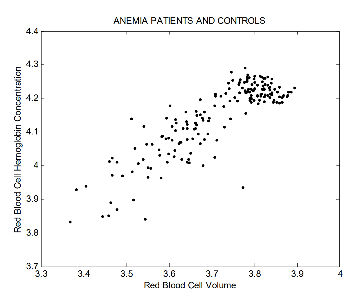 the process of EM algorithm